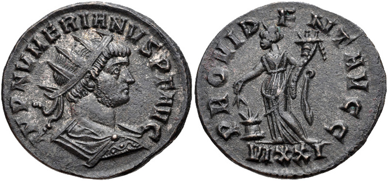 Numerian. AD 283-284. Antoninianus (22mm, 3.82 g, 6h). Ticinum mint, 6th officina. 4th emission, AD 283. IMP NUMERIANUS PF AUG, Radiate, draped, and cuirassed bust right PROVIDENT AUGG, Providentia standing left, holding cornucopia and grain ears over modius to left; VIXXI. RIC V 447; Pink VI/2, p. 29.